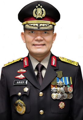 Arief Sulisyanto, Head of Criminal Investigation Agency (Indonesia)